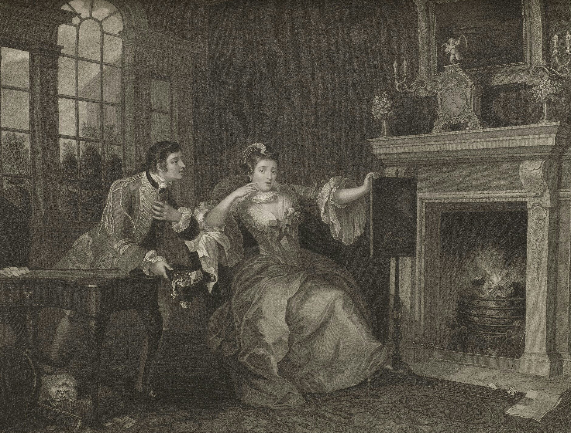 "The Lady's Last Stake", engraved by Thomas Cheesman.